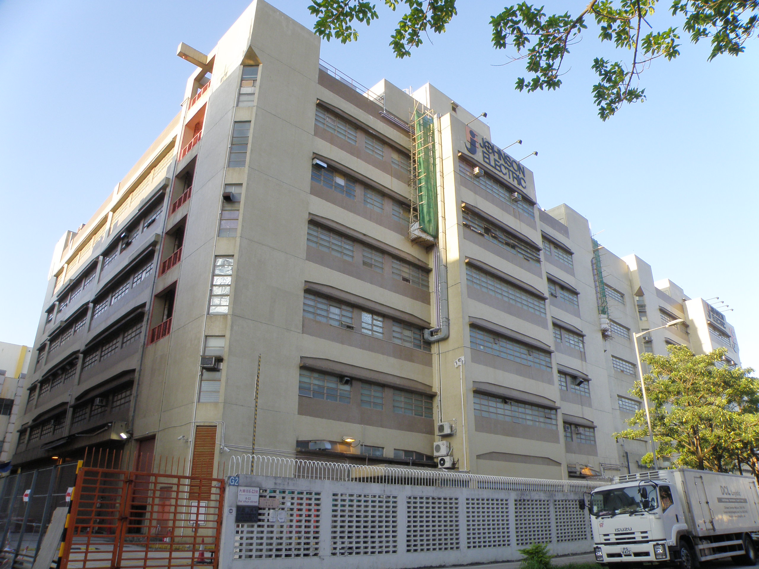 Johnson Electric Industrial Manufactory Limited in Tai Po, Hong Kong.